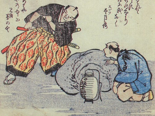 Yonakiishi from Kyōka Hyaku Monogatari